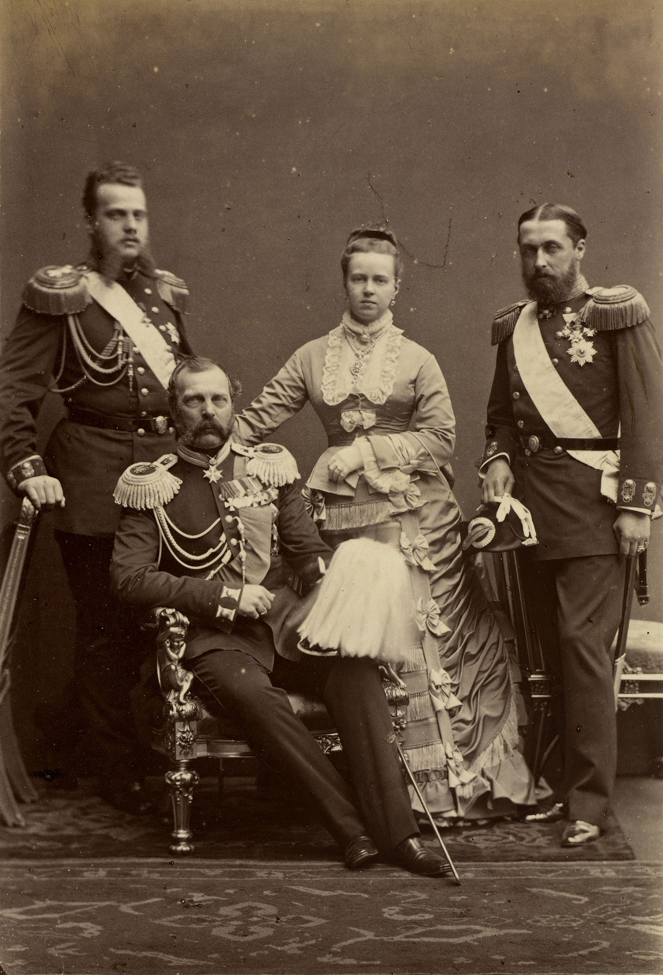 Grand Duke Alexei, Tsar Alexander II, Grand Duchess Maria Alexandrovnsa, Prince Alfred